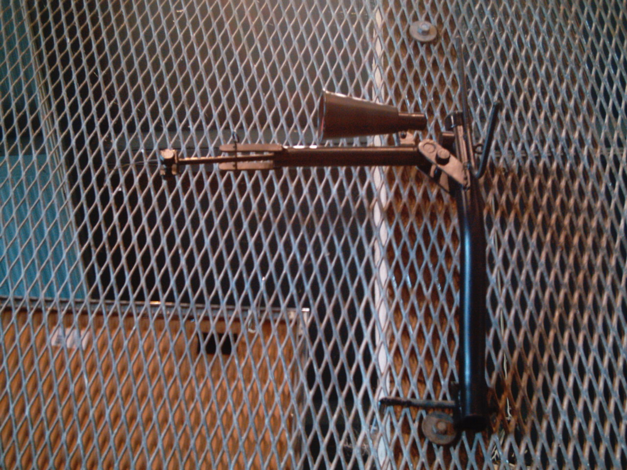 At Point Alpha in the Rhoen exhibited spring-gun SM-70 (Splittermine Modell 1970) (East German directional antipersonnel mine) at circa 1970s.